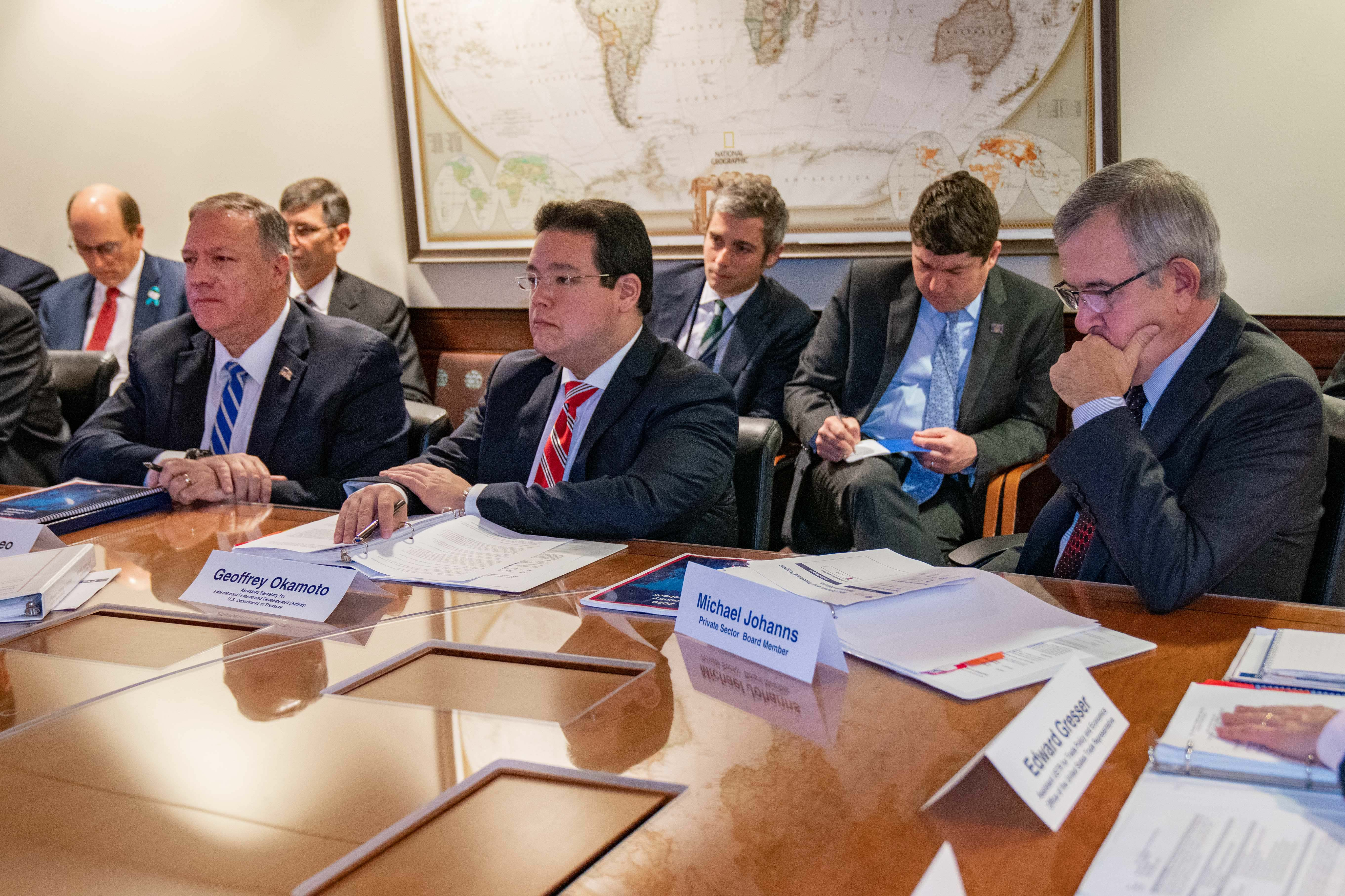 Secretary of State Michael R. Pompeo delivers remarks at the Millennium Challenge Corporation Board Meeting, at the Department of State in Washington, D.C., on December 9, 2019. [State Department photo by Ron Przysucha/ Public Domain]